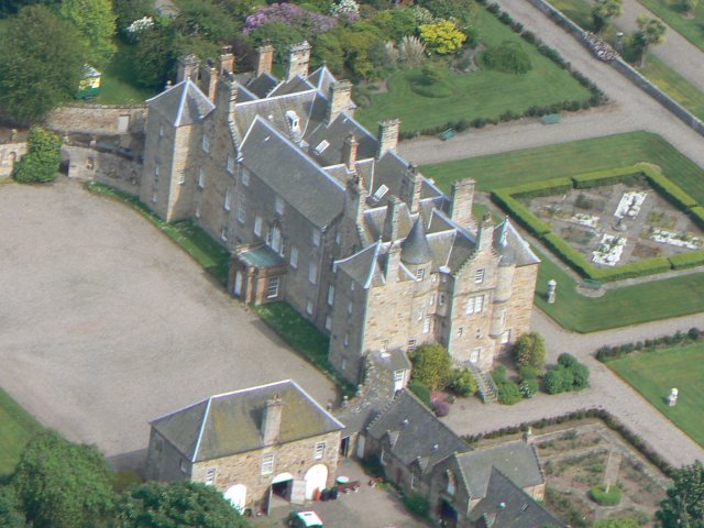 Balkaskie House Home of the Anstruther family, Balkaskie has the first formally designed garden ever created in Scotland, dating from around 1670.